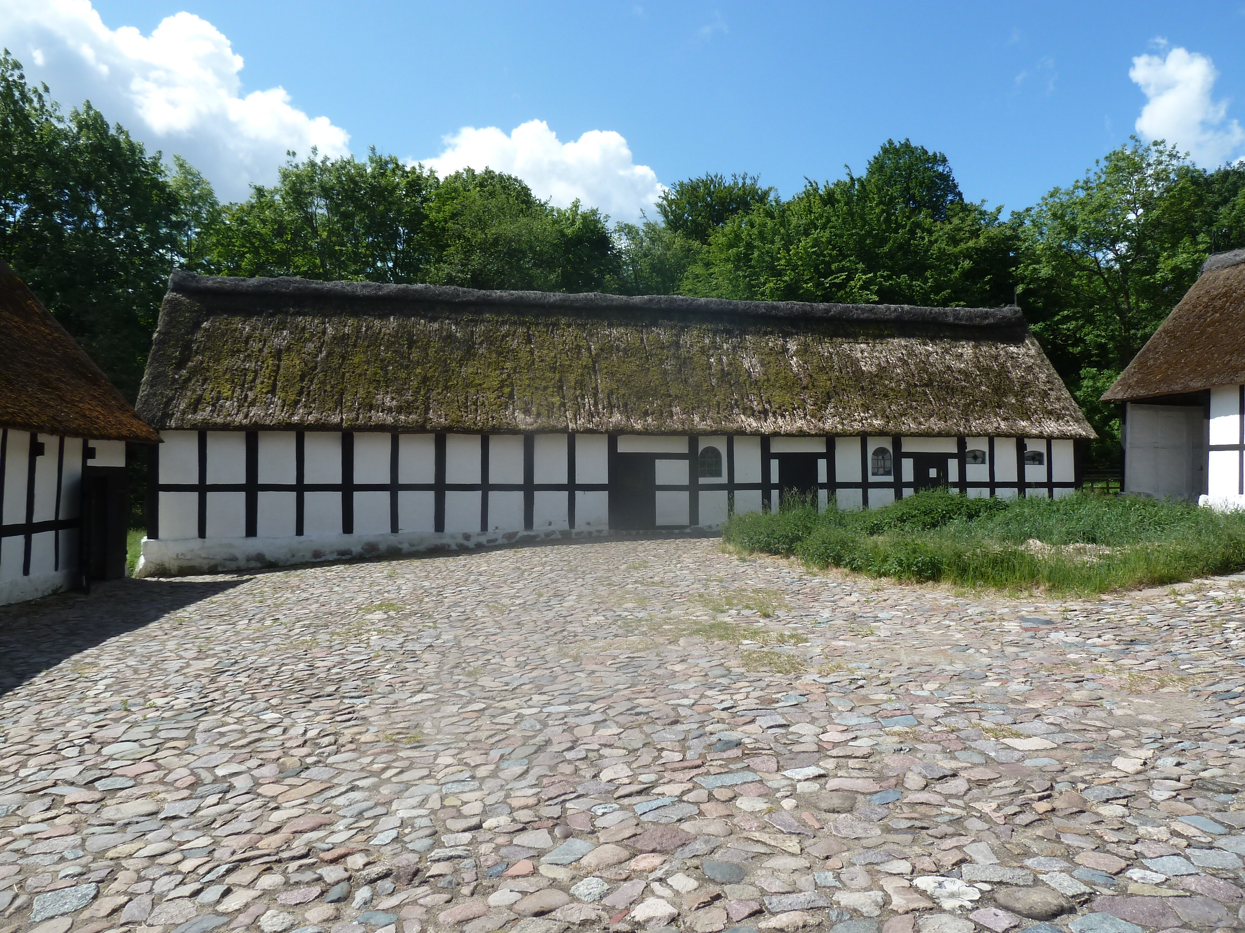 Farm from Østerlars, Bornholm, now on Frilandsmuseet (the open air museum) north of Copenhagen.